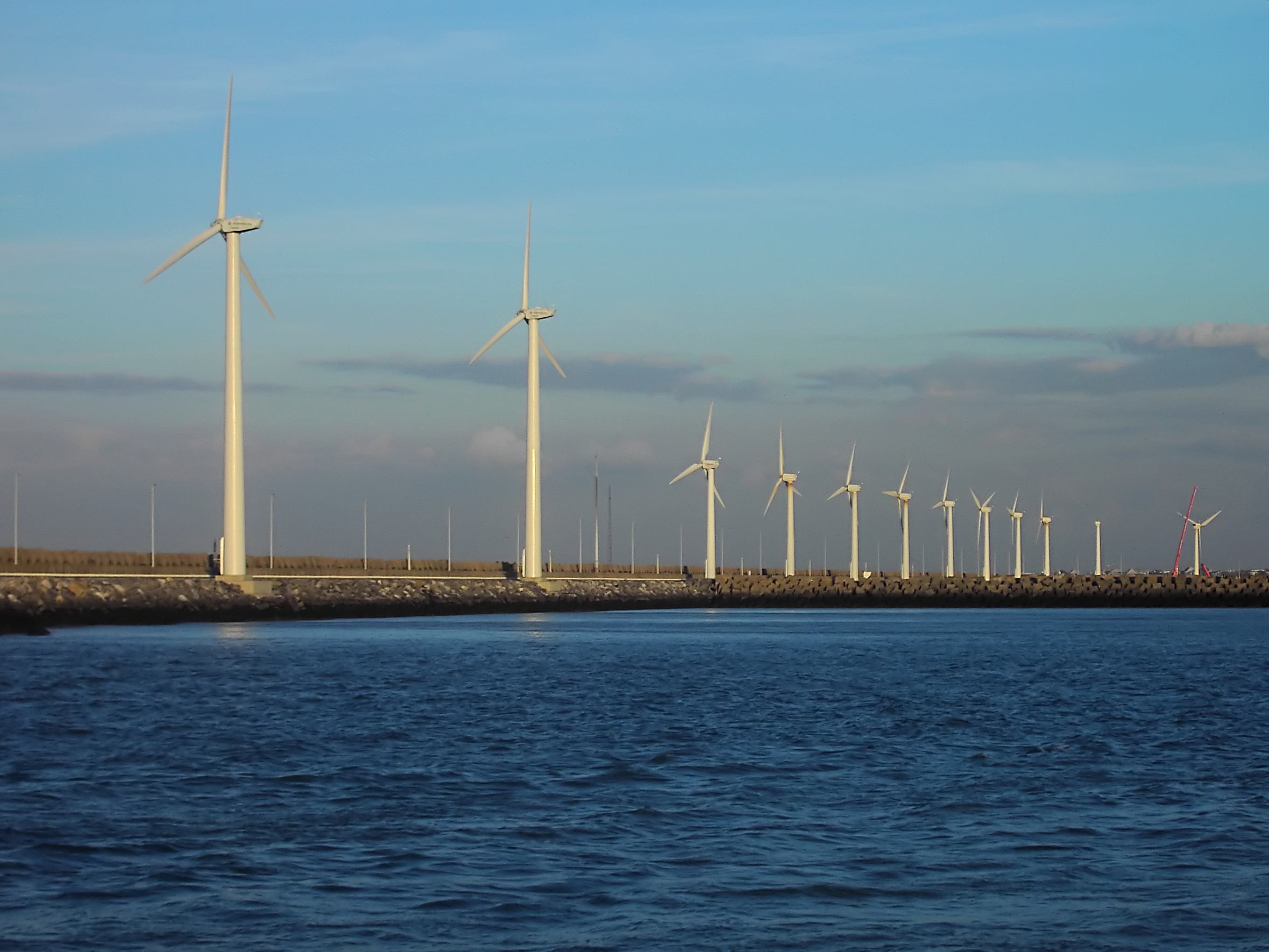 Windmills at the port of Zeebrugge, Belgium. Rotor diameter: 48 m Rotor area: 1,810 m² Nominal power: 600 kW Turbines: Turbowinds T600-48 Min hub height : 50 m Max hub height : 60 m